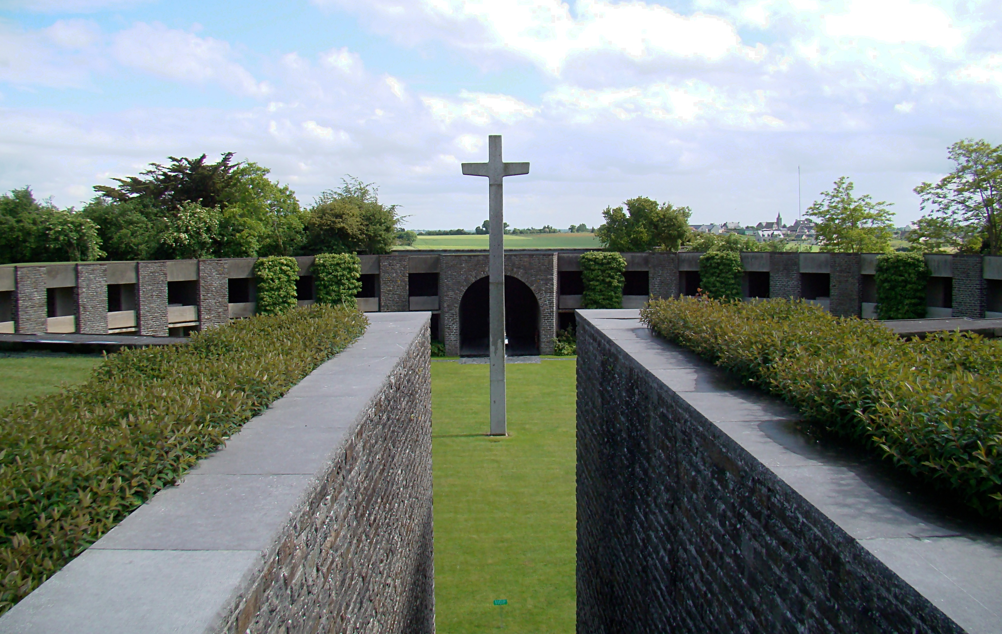 German War Cemetery at the Mont d'Huisnes, Normandy, France